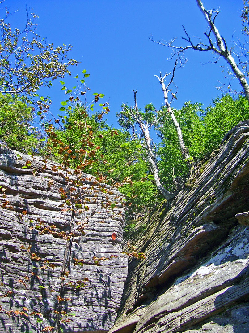 Photographed by Daniel Case 2006-08-12 at about 3,500 feet on the west slope of the mountain.